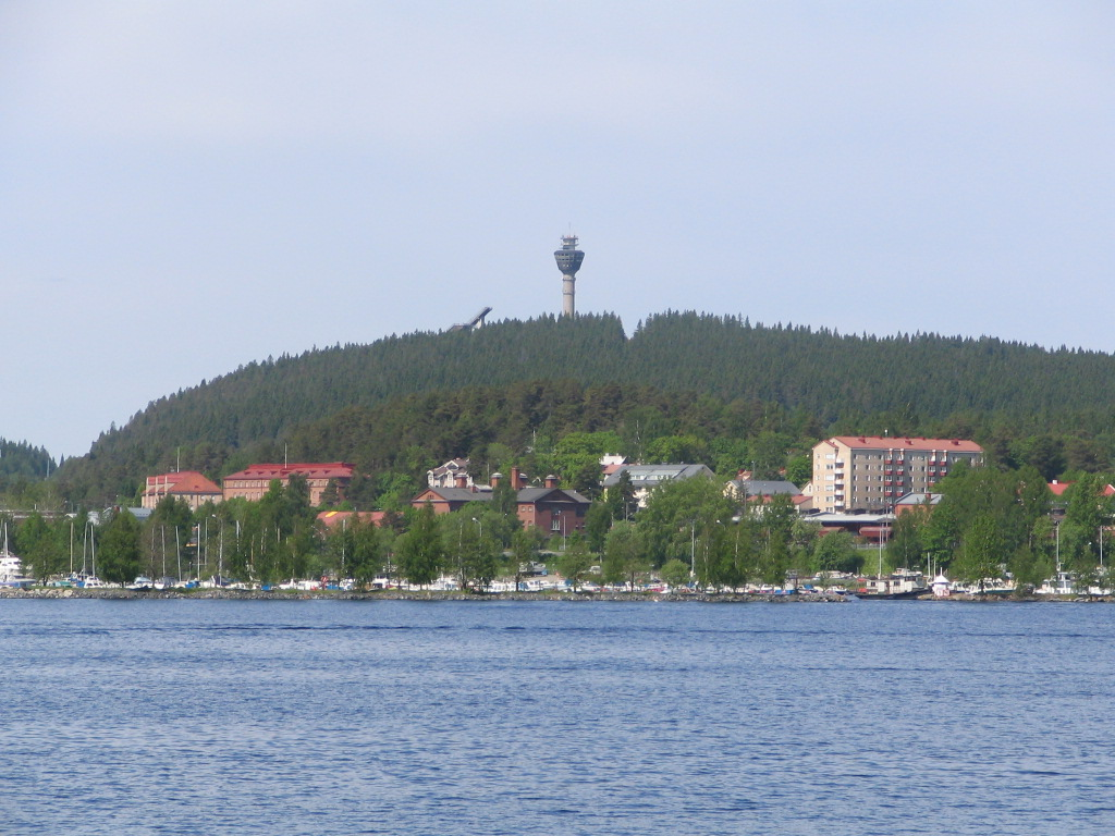 Hill of Puijo (Kuopio, Finland) with Puijo tower pictured from the lake of Kallavesi.